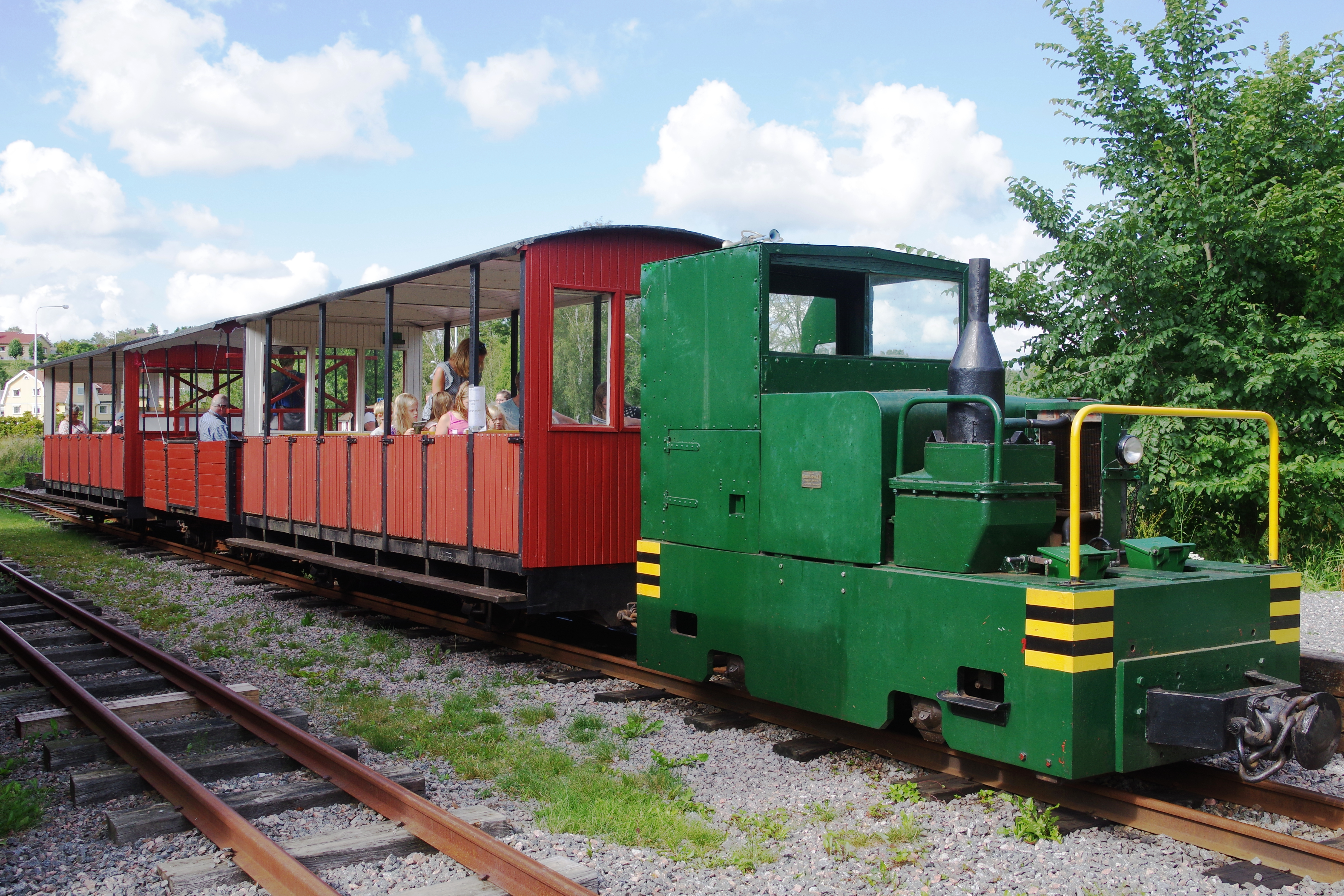 Heritage Railway Society in Munkedal. Diesel Locomotive "Simplex" with open Train Waggons